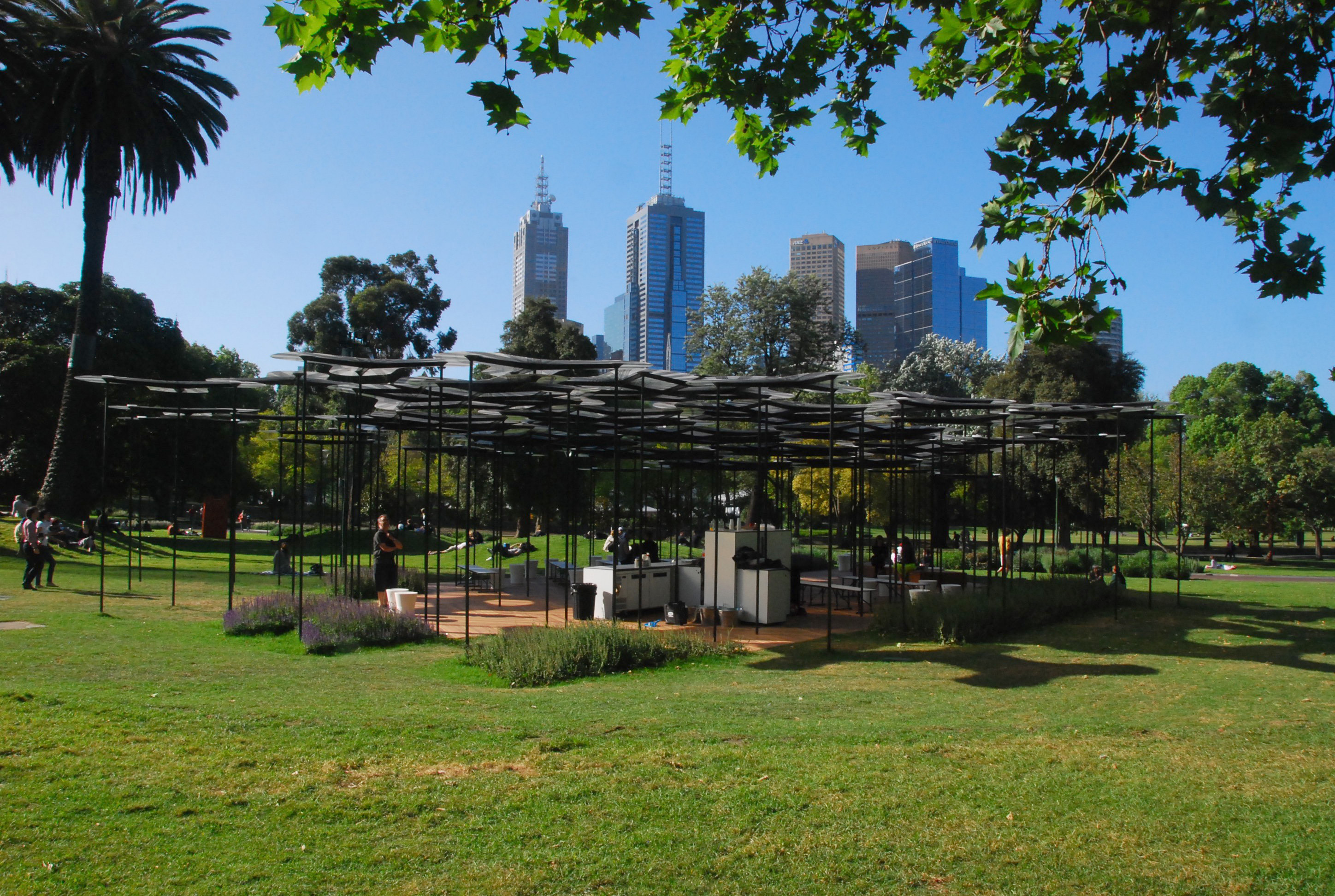 MPavilion, Queen Victoria Garden, Melbourne. Architect: Amanda Levete. AL_A with ARUP